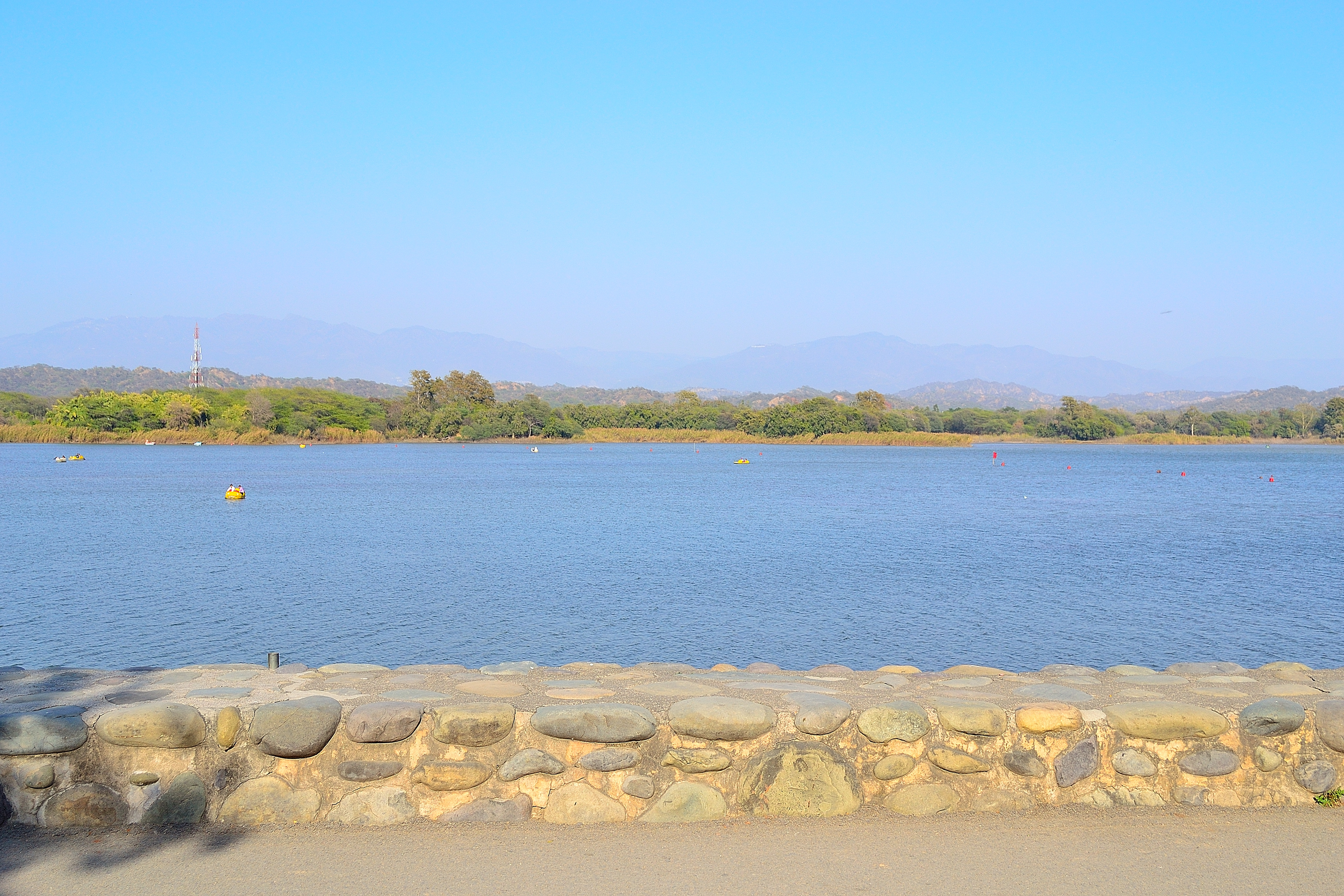 This is a view of Shiwalik Hills